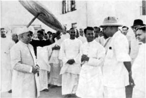 The Maharajah of Cochin on arrival at Trivandrum with the Maharajah of Travancore, the Premiers of the two States and V. P. Menon.